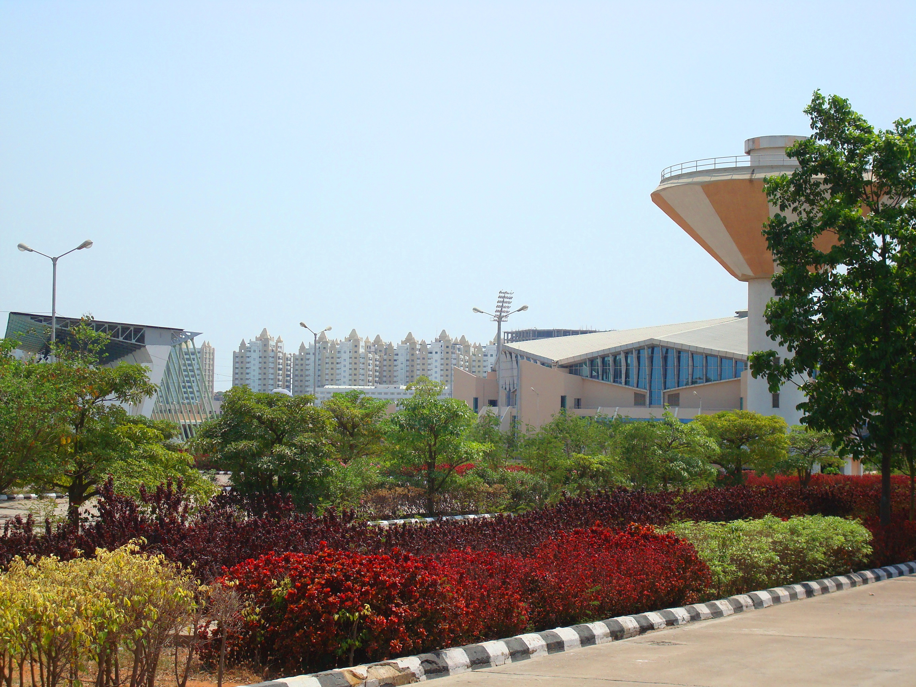 The Gachibowli stadium in the foreground and real estate activity in the backdrop.self-photographed.